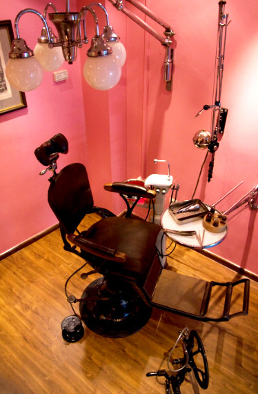 Dental Unit of the 1930s